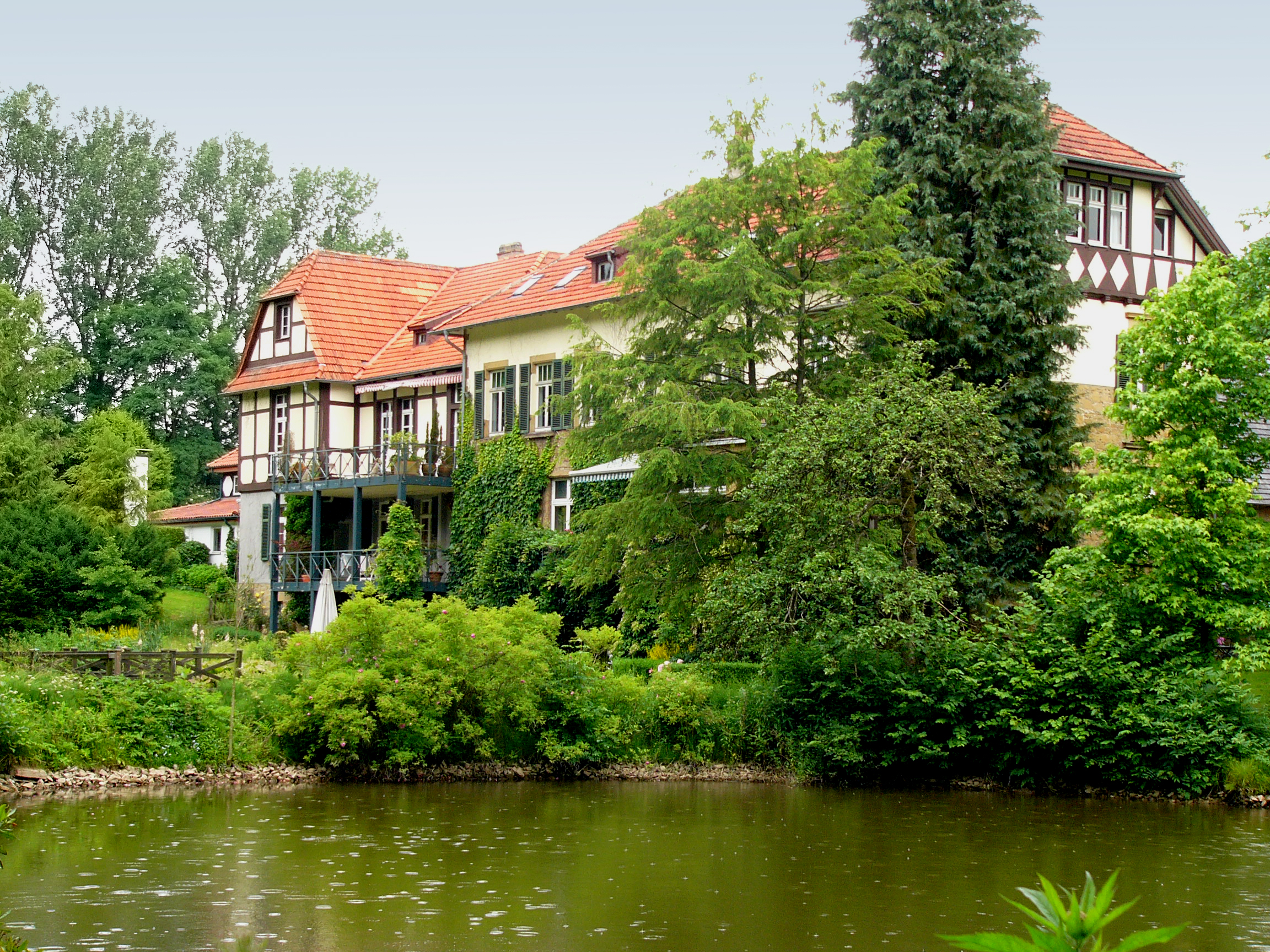 Manor Menkhausen in Oerlinghausen, Germany.